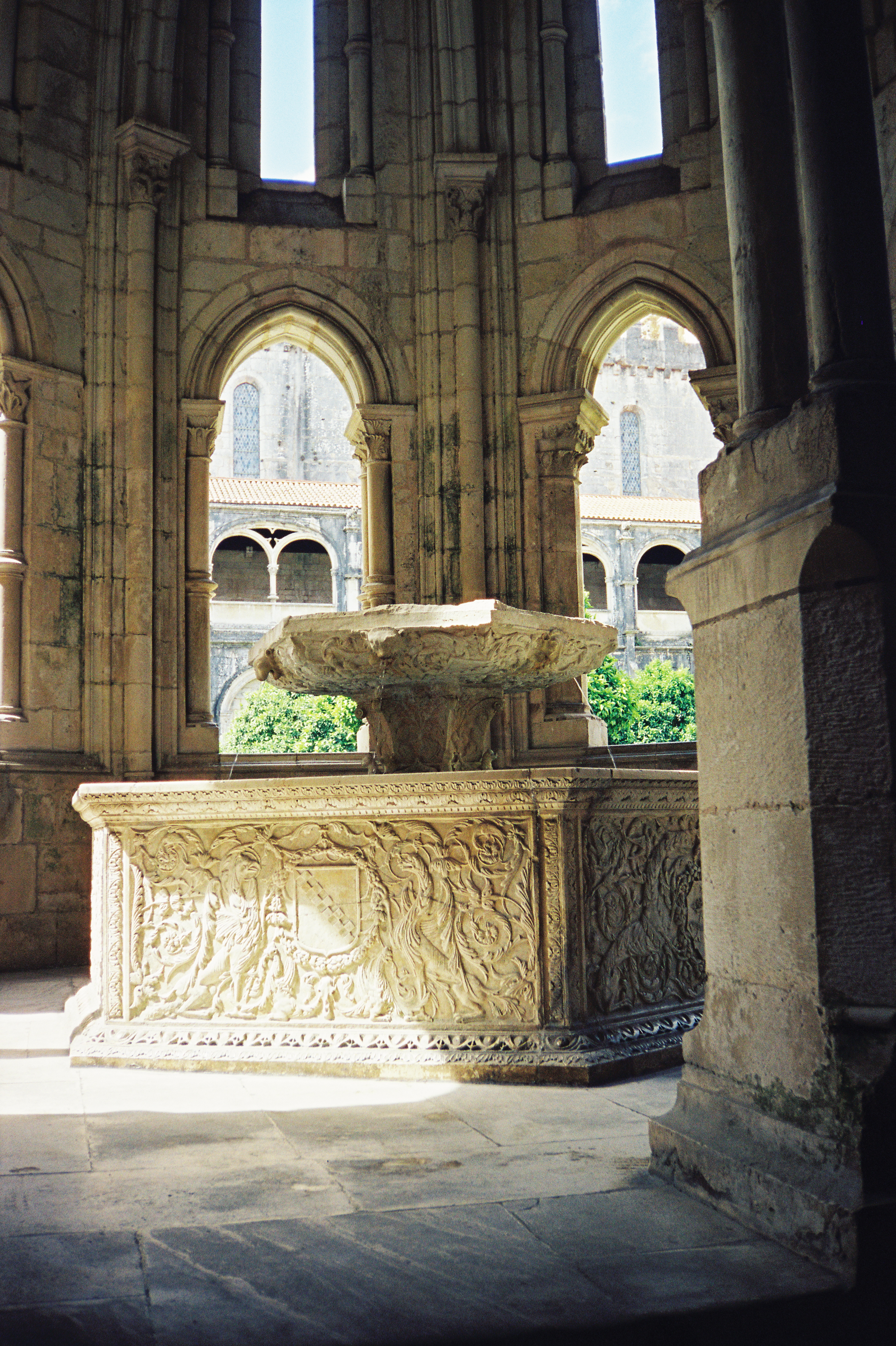 Alcobaca monastery fountain house